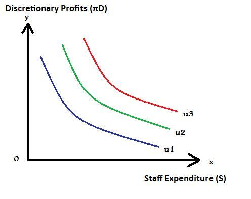 Utility indifference curves of managers in Williamson's Model of Managerial Discretion